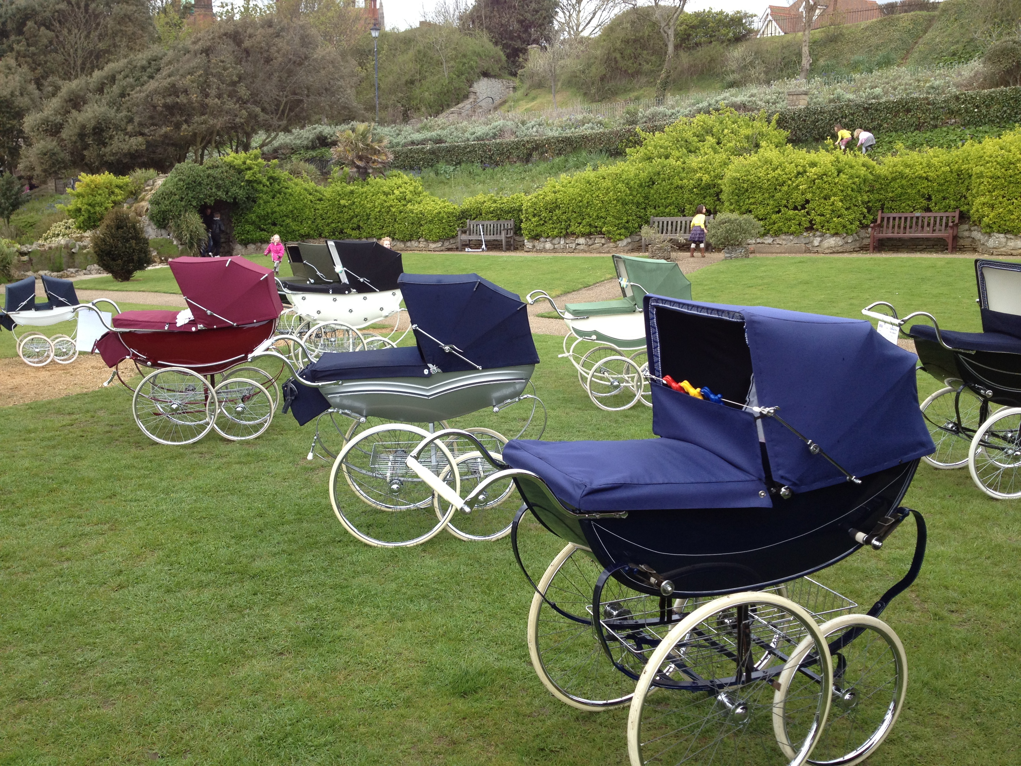 A display of traditional perambulators on display in Felixstowe, May 2012